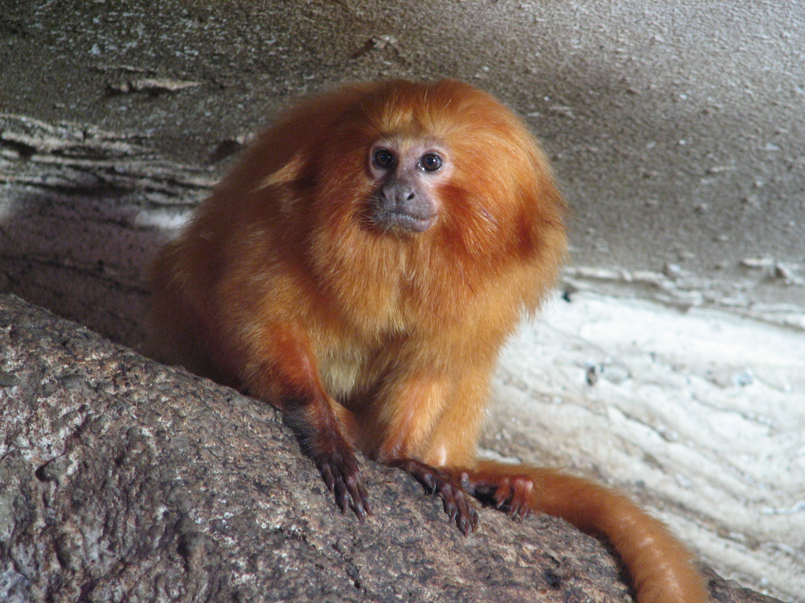 Leontopithecus rosalia in ZOO Jihlava, Czech Republic